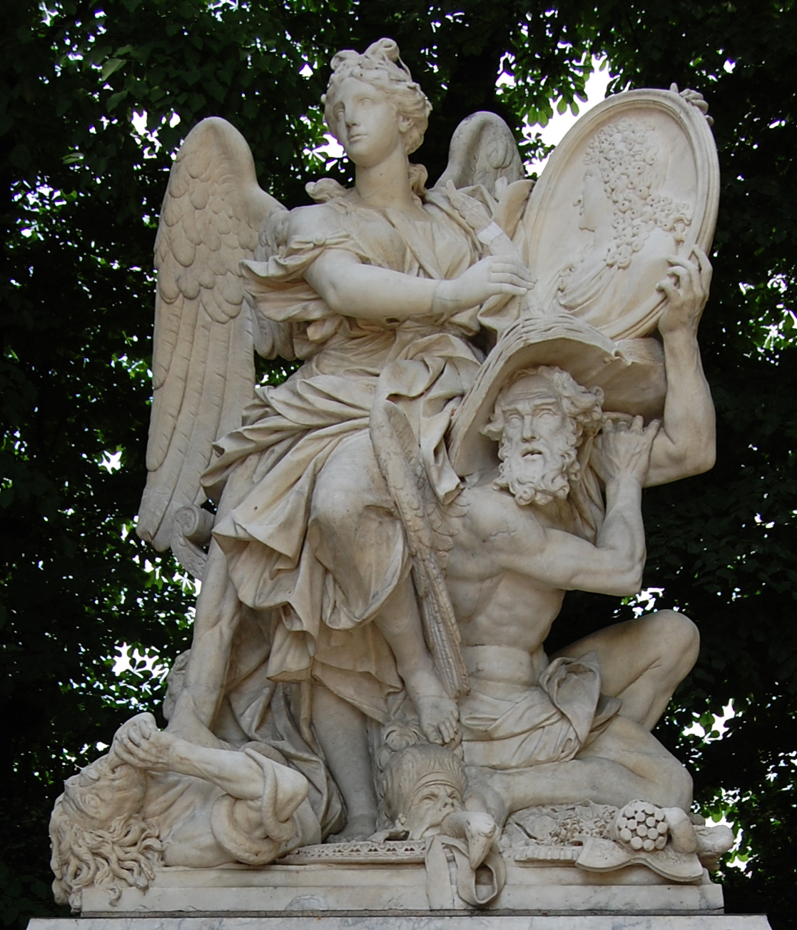 La Renommée écrivant l'histoire du Roi by Domenico Guidi (cropped version of File:La Renommée écrivant l'histoire du Roi - DSC 0770.jpg)